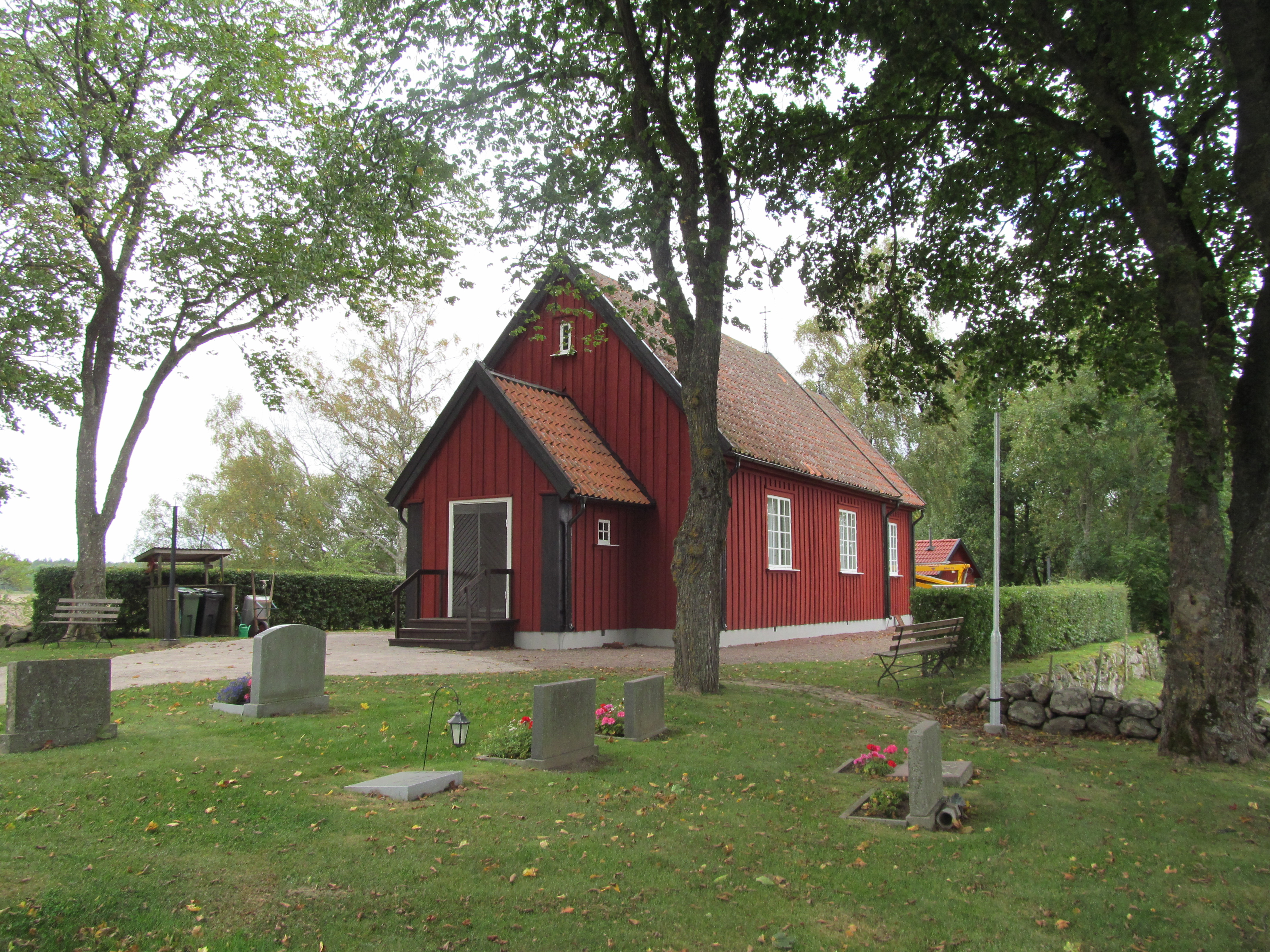 Slädene church